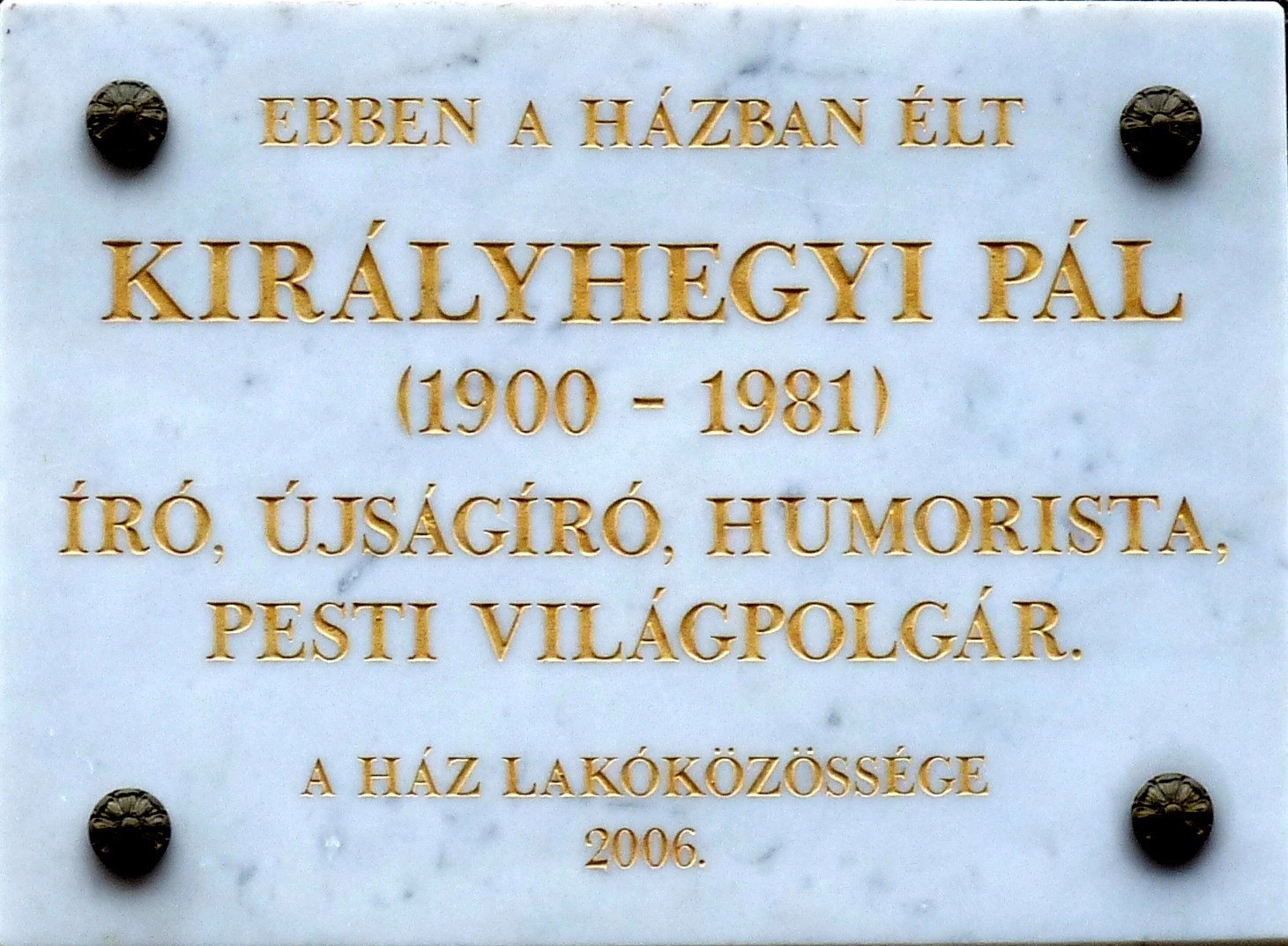 Pál Királyhegyi commemorative plaque in Budapest District VII, Hársfa Street No 40.